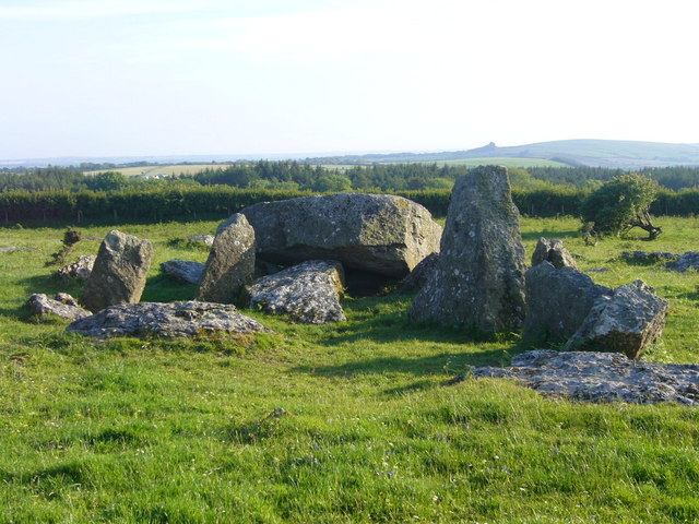 Garn Turne Chambered Cairn . 25345 can be seen in the distance behind the tallest stone. This is near the Preseli Hills from which some of the stones of 477 were brought.